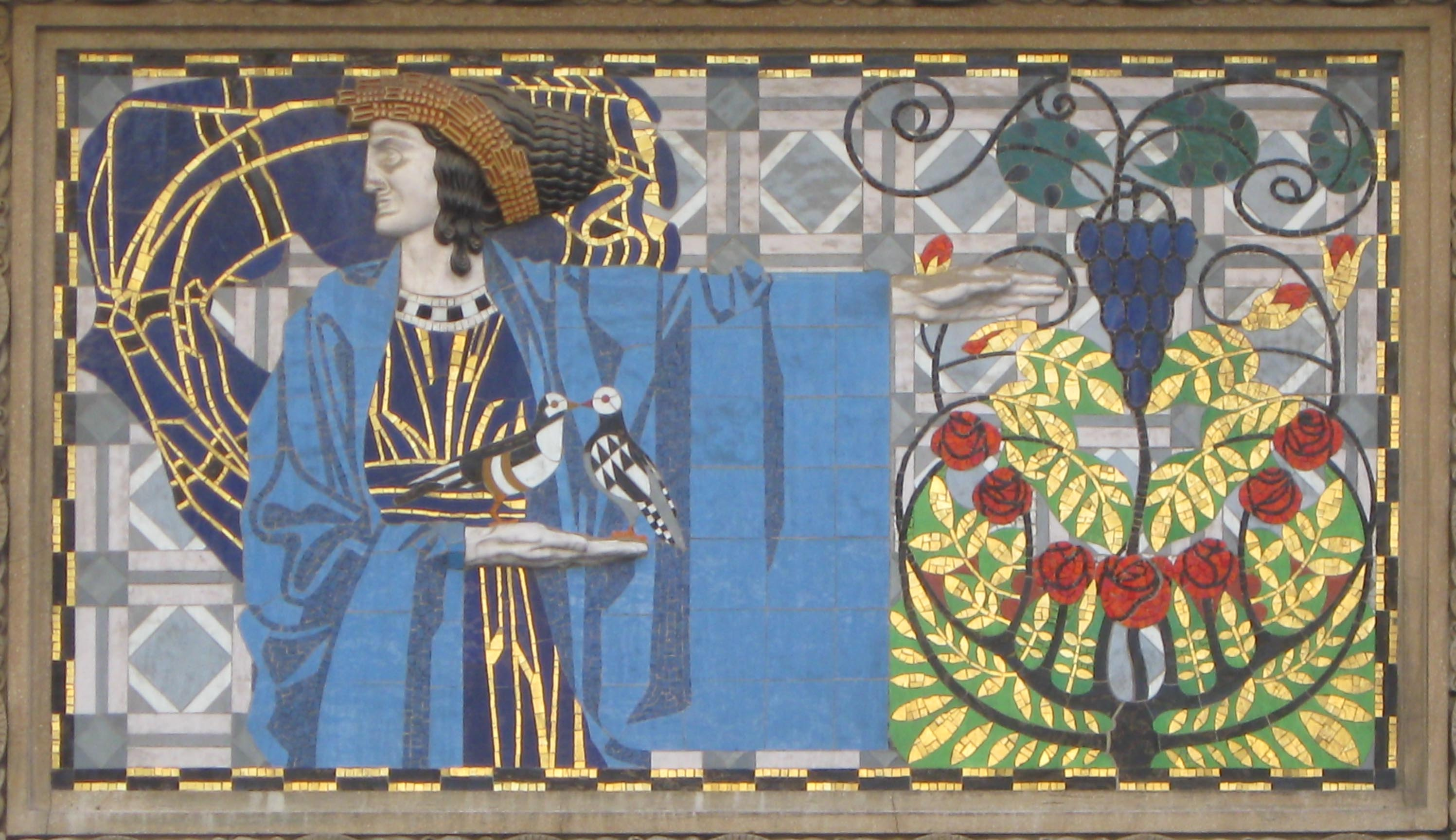 Leopold Forstner (1878-1936), Mosaic over the entrance of the residence in Vienna, Frankenberggasse 3